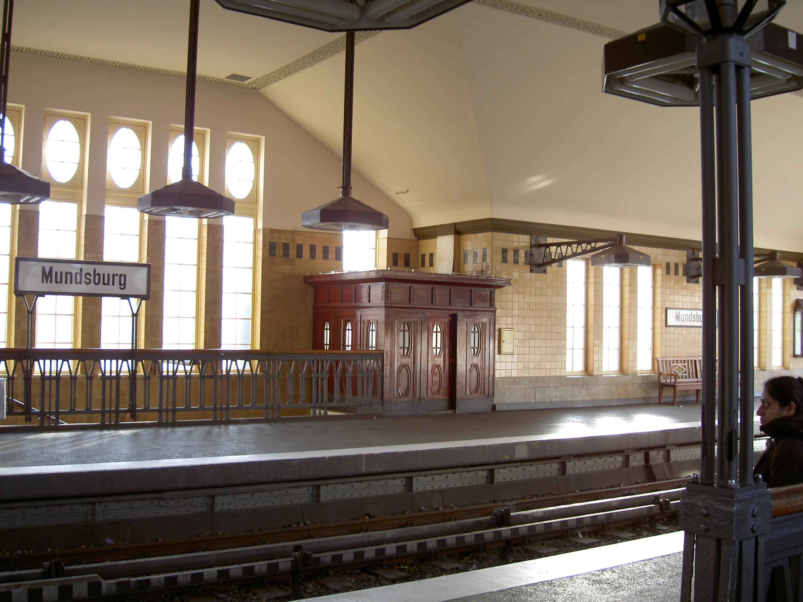 Hamburg's U-Bahn station Mundsburg, Hamburg, Germany